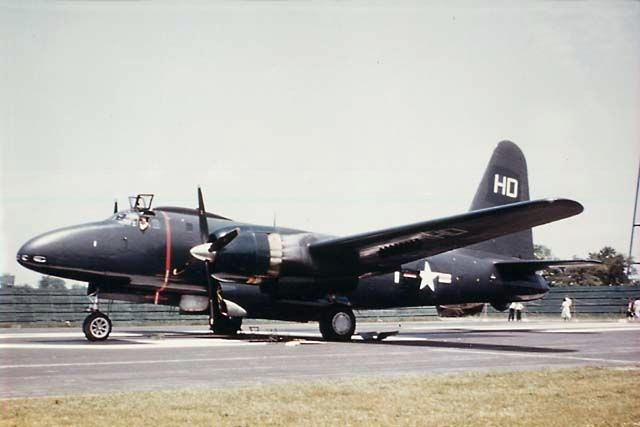 A U.S. Navy Lockheed P2V-3 Neptune (BuNo 122441) of Patrol Squadron VP-8 "Tigers", circa in 1949.